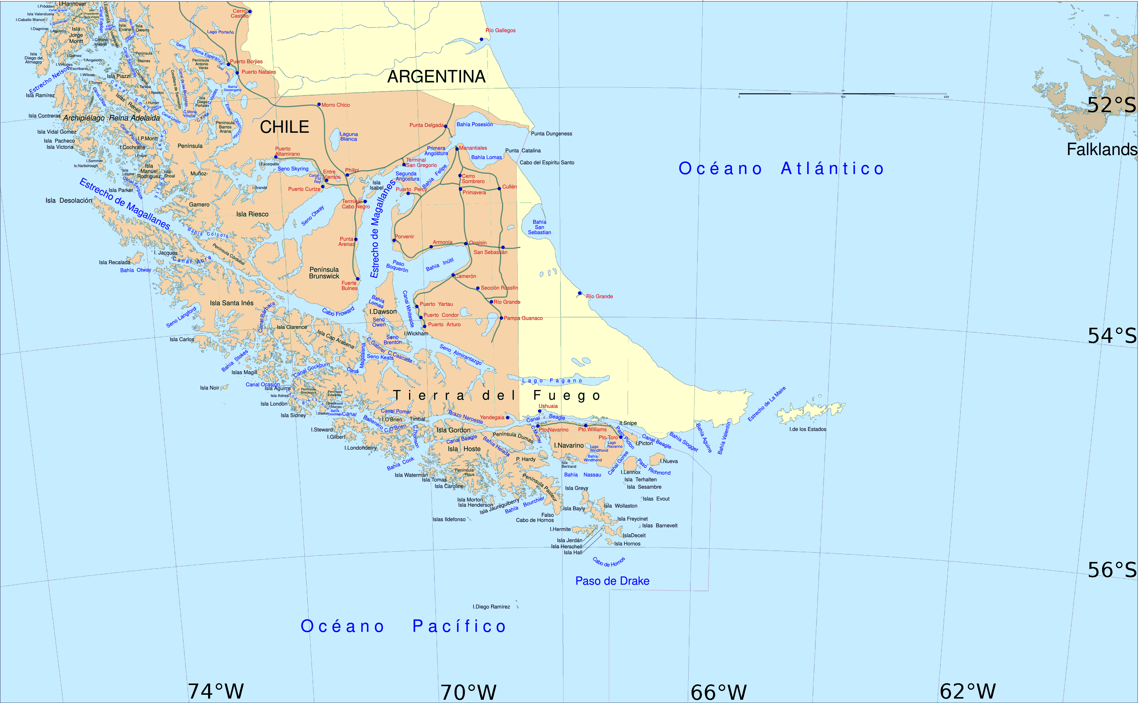 Political map of southern Chile and Argentina, from Straits of Magellan to Cape Horn.